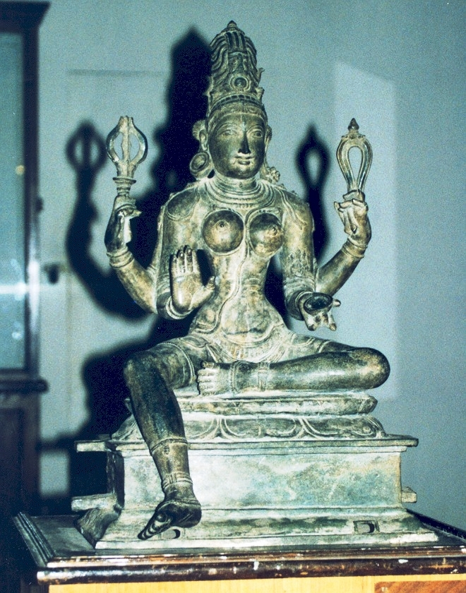 Maheshvari, Devi, Bronze sculpture, Chola dynasty, Government Museum Chennai, Madras, India [1]